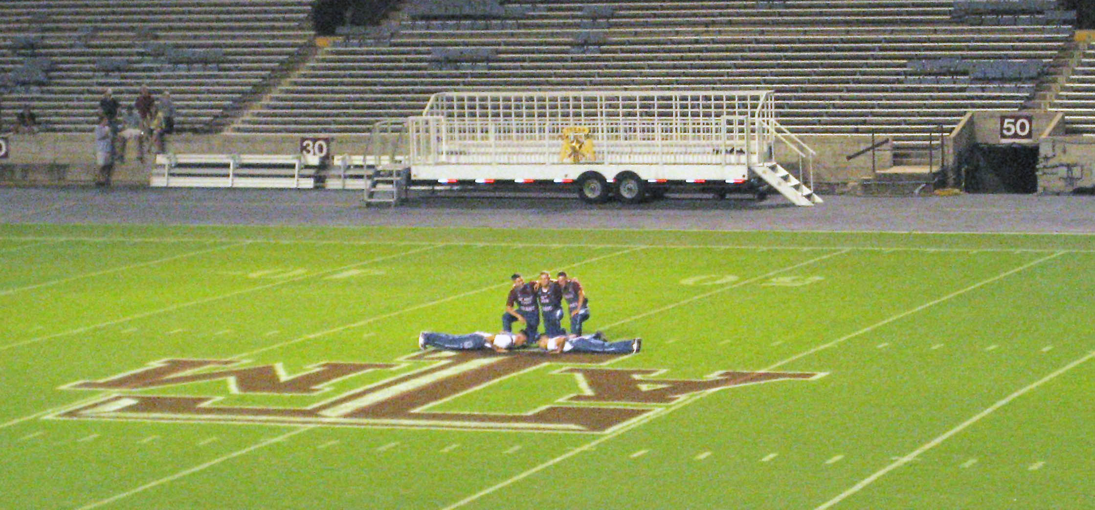 Senior Yell Leaders "forcing" junior yell leaders to do pushups while the Aggie Band plays.